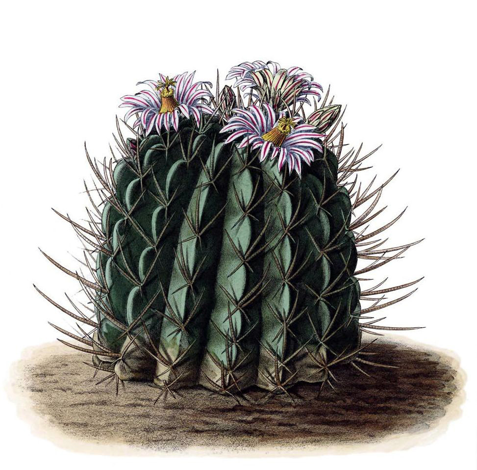 Stenocactus coptonogonus